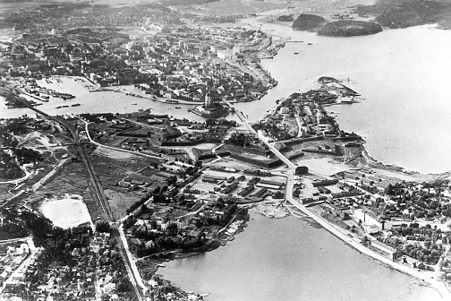 Panorama of the Tverdysh island and the city of Vyborg.